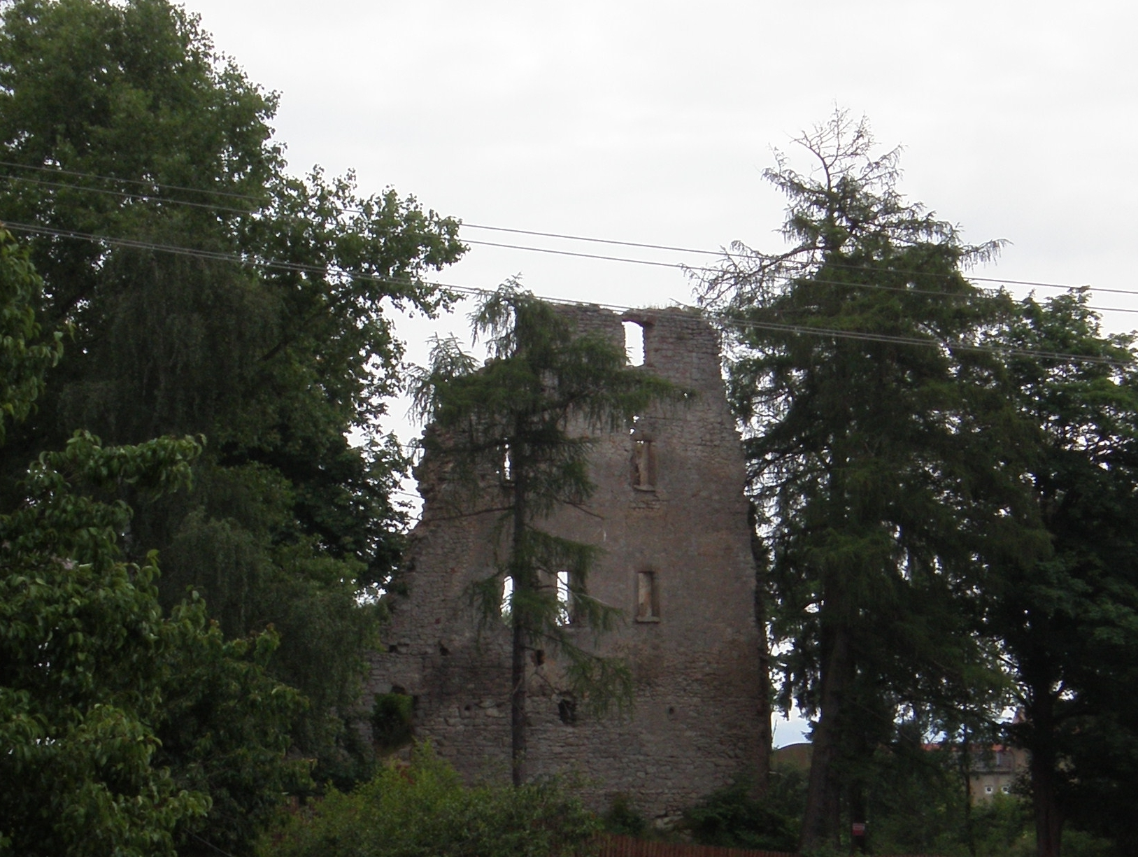 Starý Rybník Castle, Starý Rybník (Skalná), Cheb District, Czech Republic